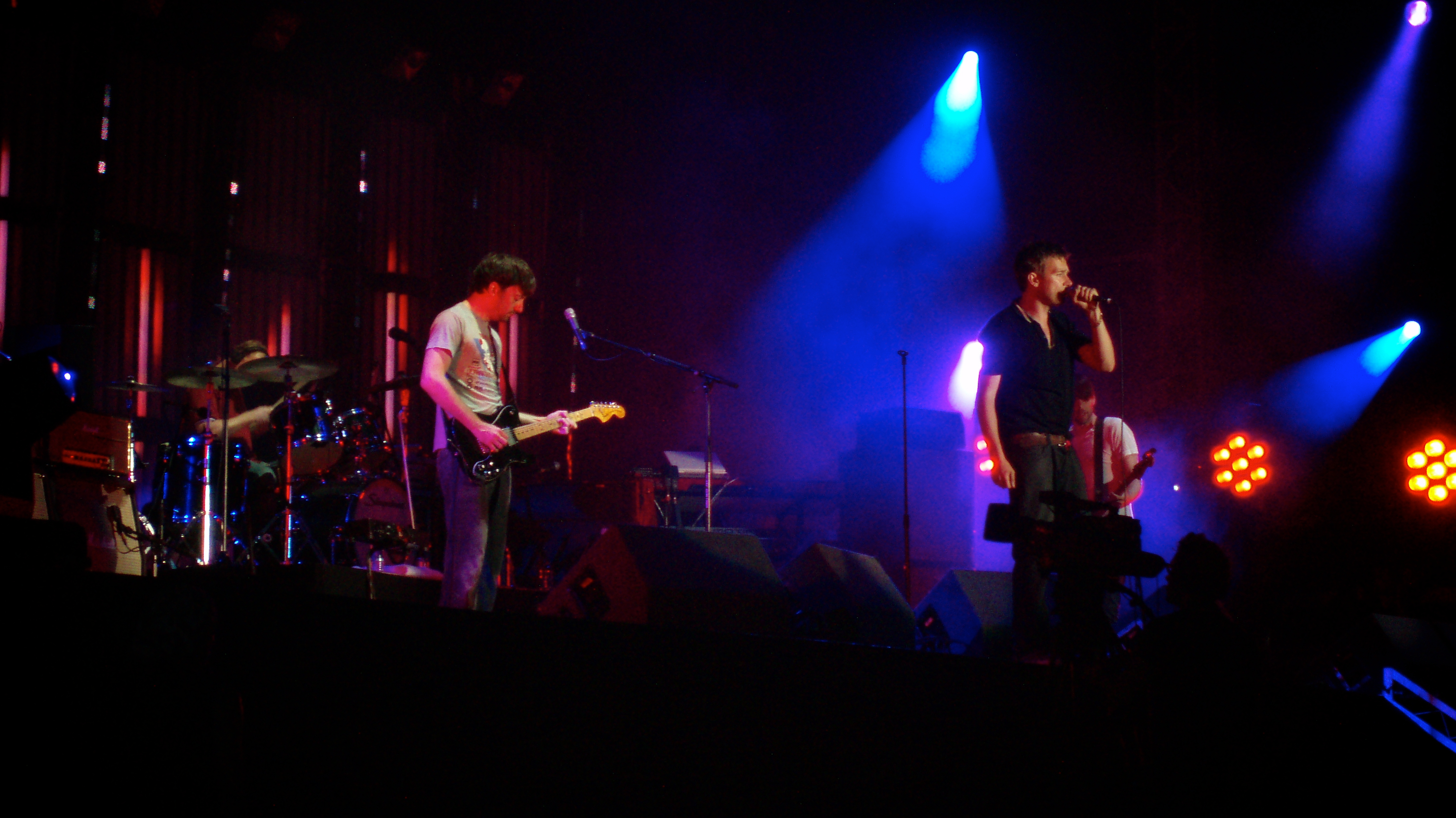 Hyde Park, 3rd July 2009